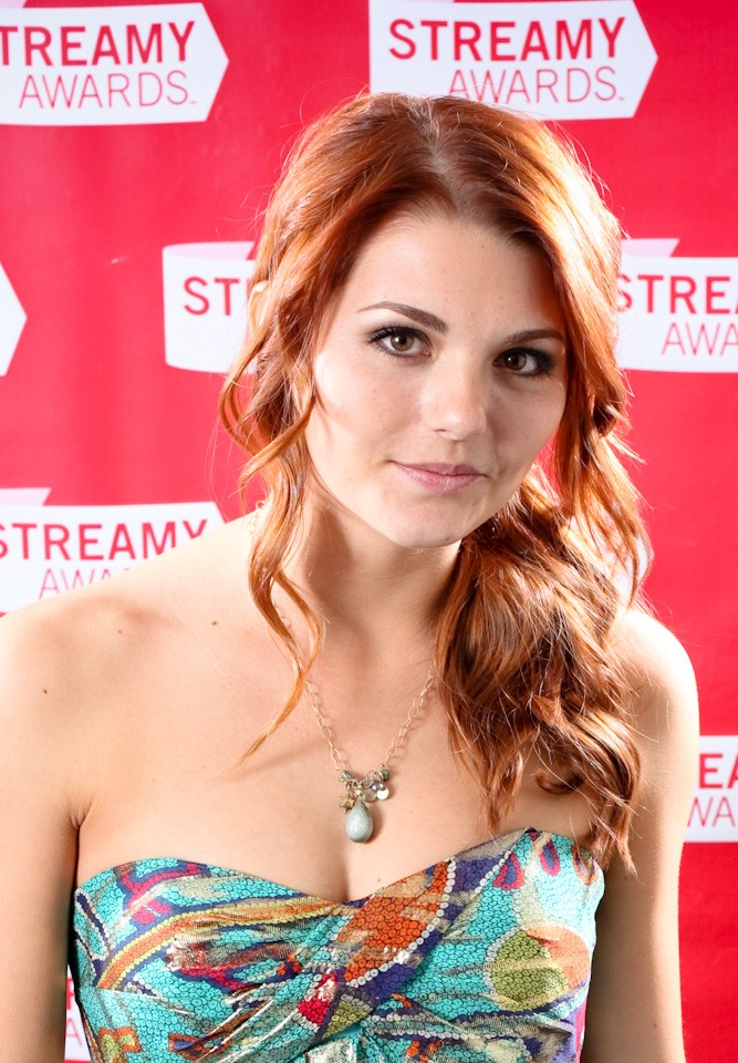 Jessica Lee Rose at the 1st Streamy Awards in 2009.